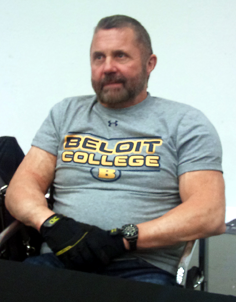 Kane Hodder at SciFiWorld in Stockholm, December 2, 2012.